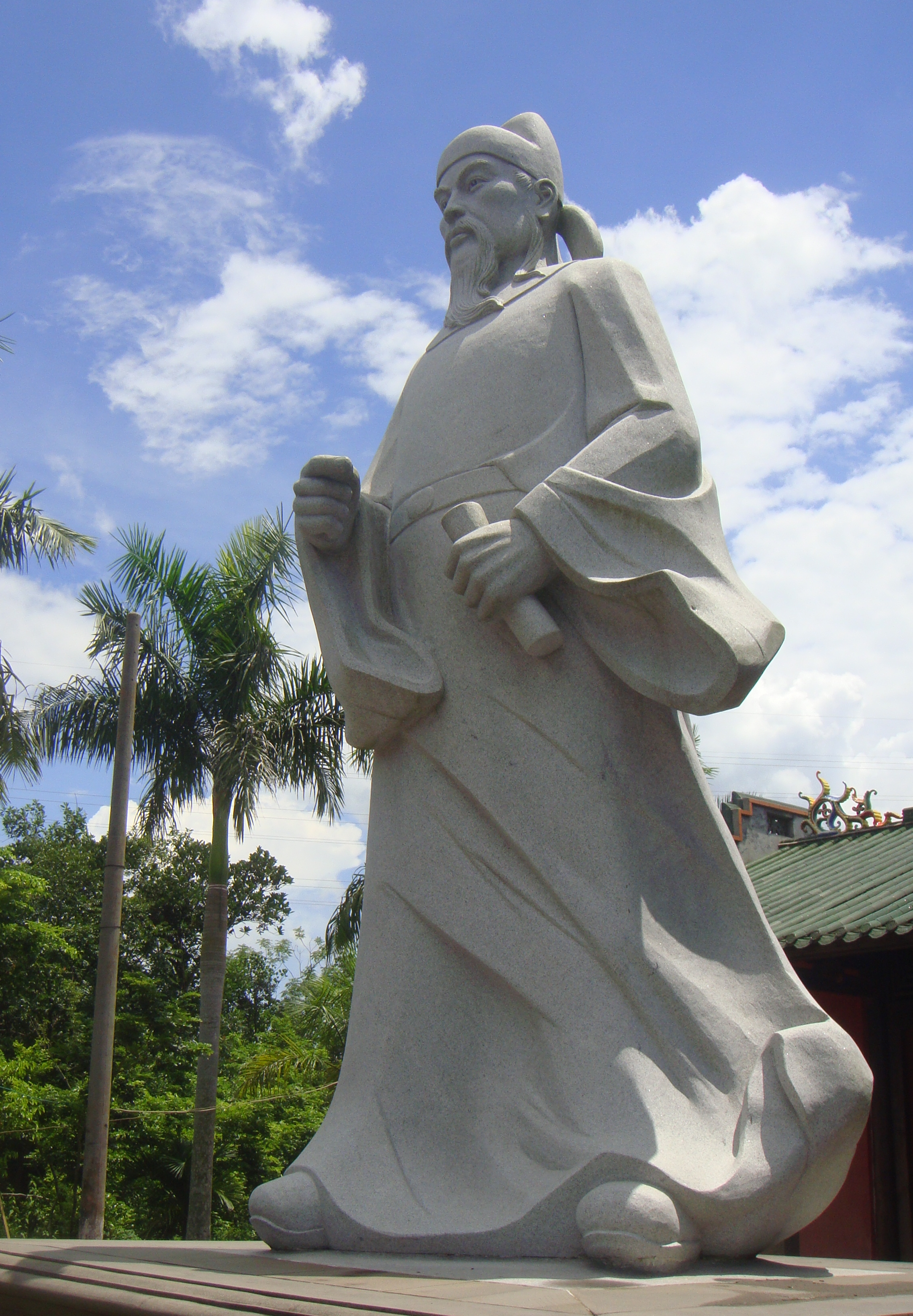 Wei Zhiyi (official of the Tang Dynasty) statue in Hainan, China